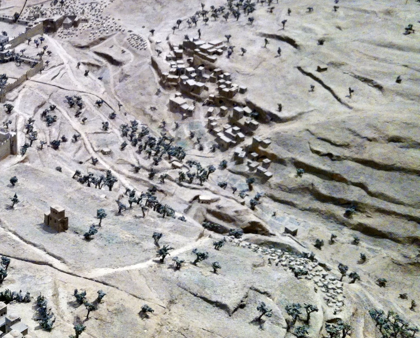 Illes Relief at the Tower of David Museum